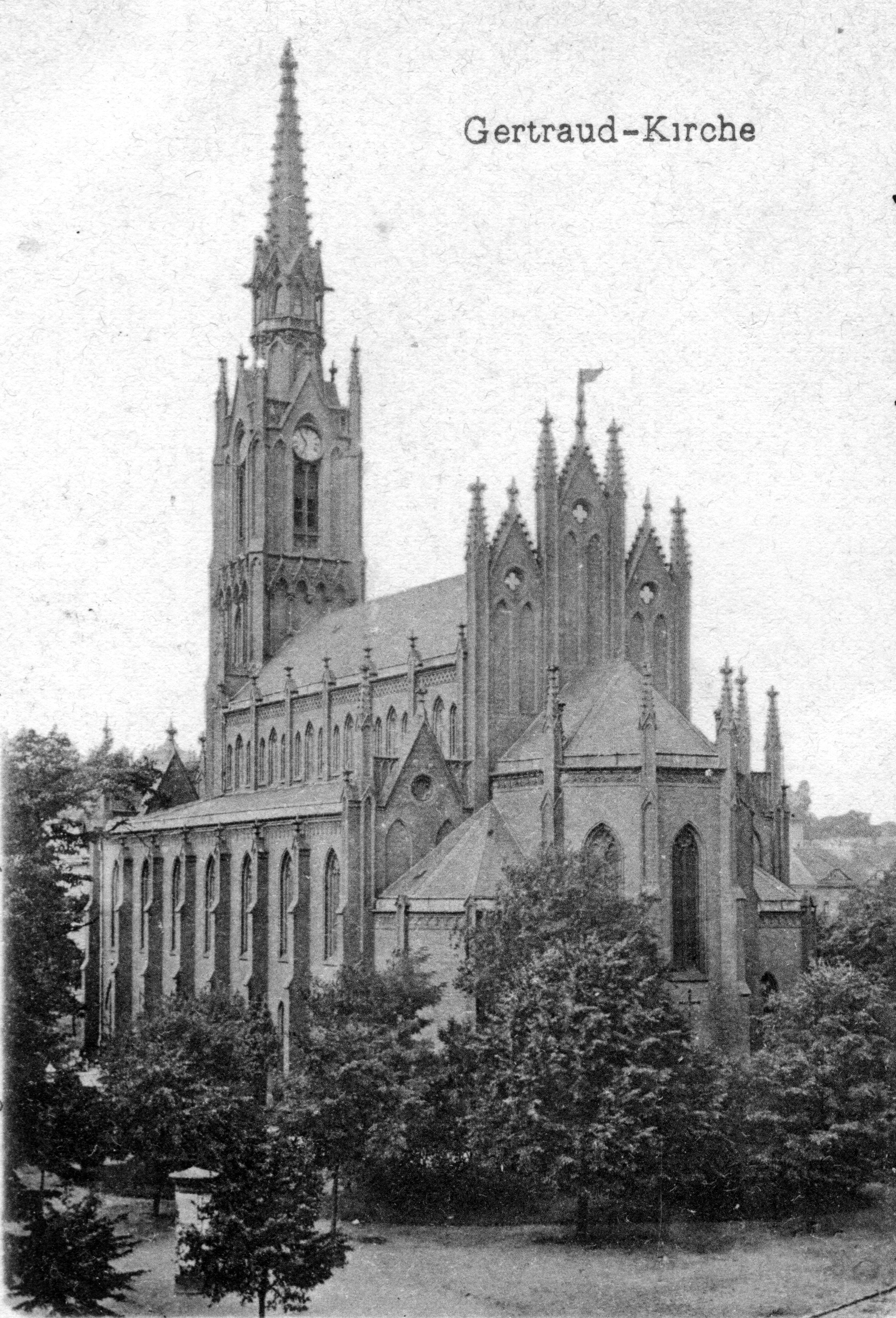 Frankfurt (Oder), St. Gertraud church. 1898.